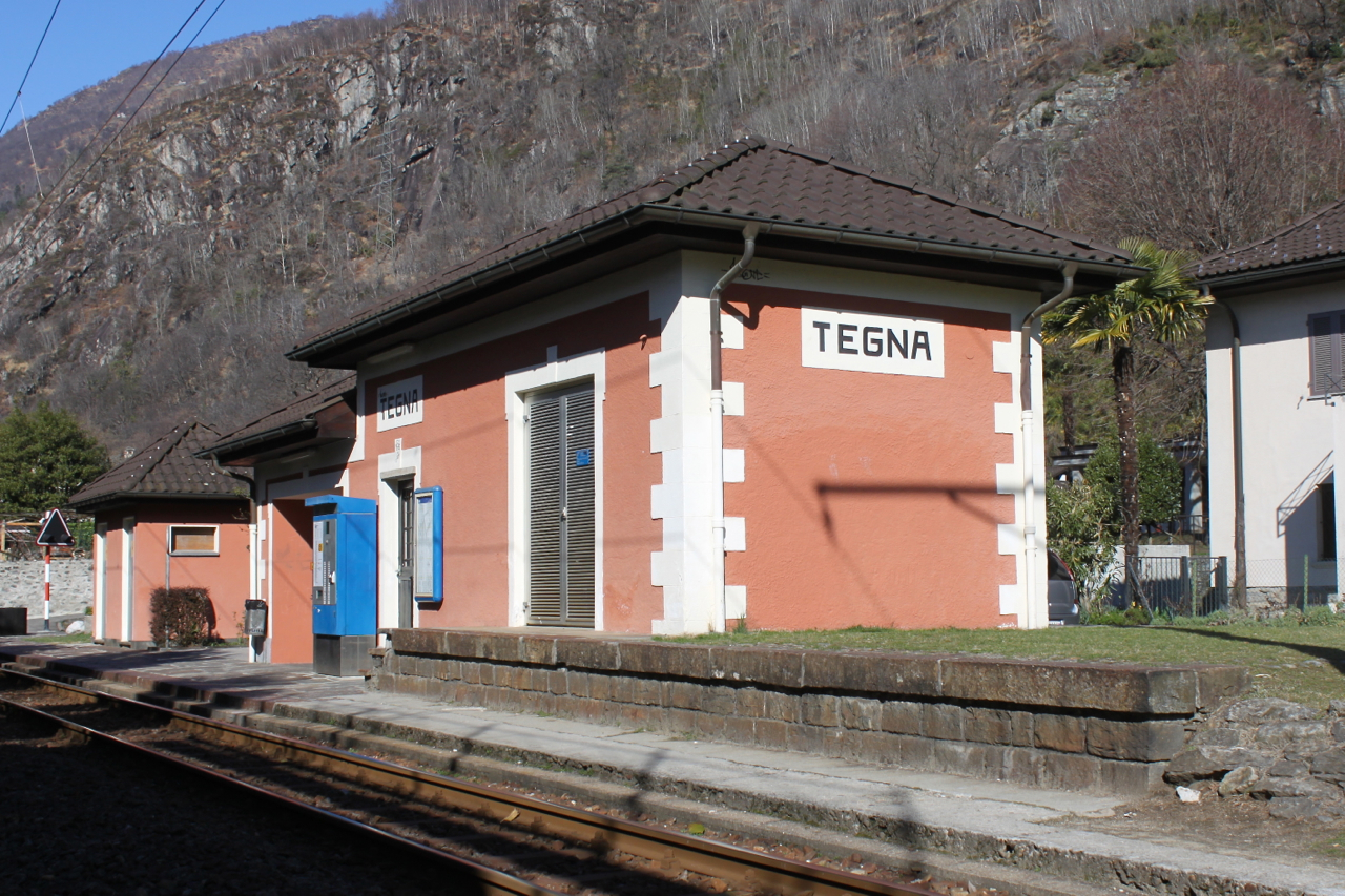 Tegna train station.